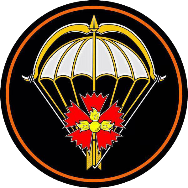 2nd Spetsnaz Brigade (Russia)